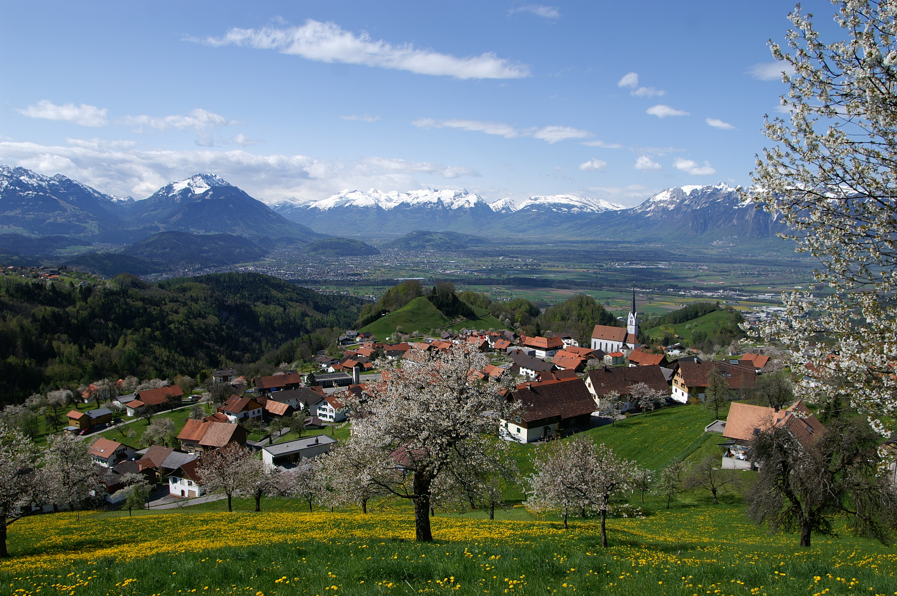 A view over blooming cherry trees towards the centre of the austrian village Fraxern in Vorarlberg. Rhinevalley and swiss mountains (Alpenstein) in the background.